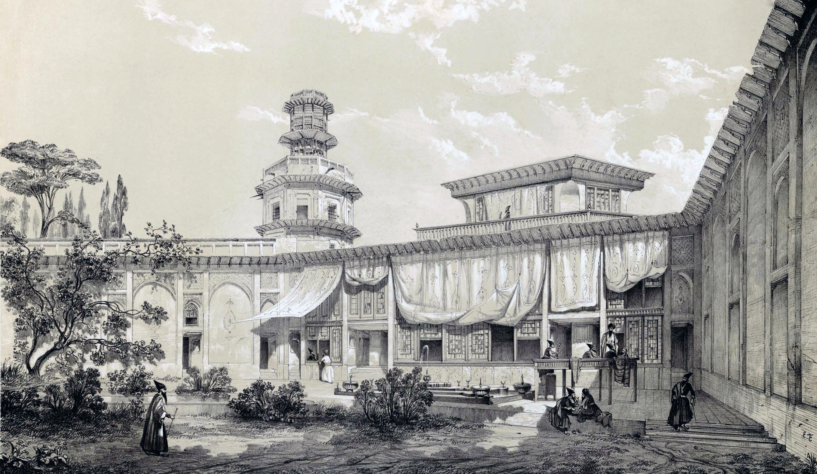 Char Bagh Palace , Isfahan